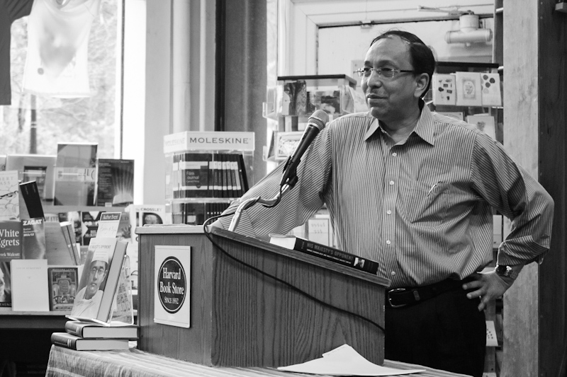 Sugata Bose speaks at the Harvard Book Store in Cambridge, Massachusetts, on April 30, 2011.